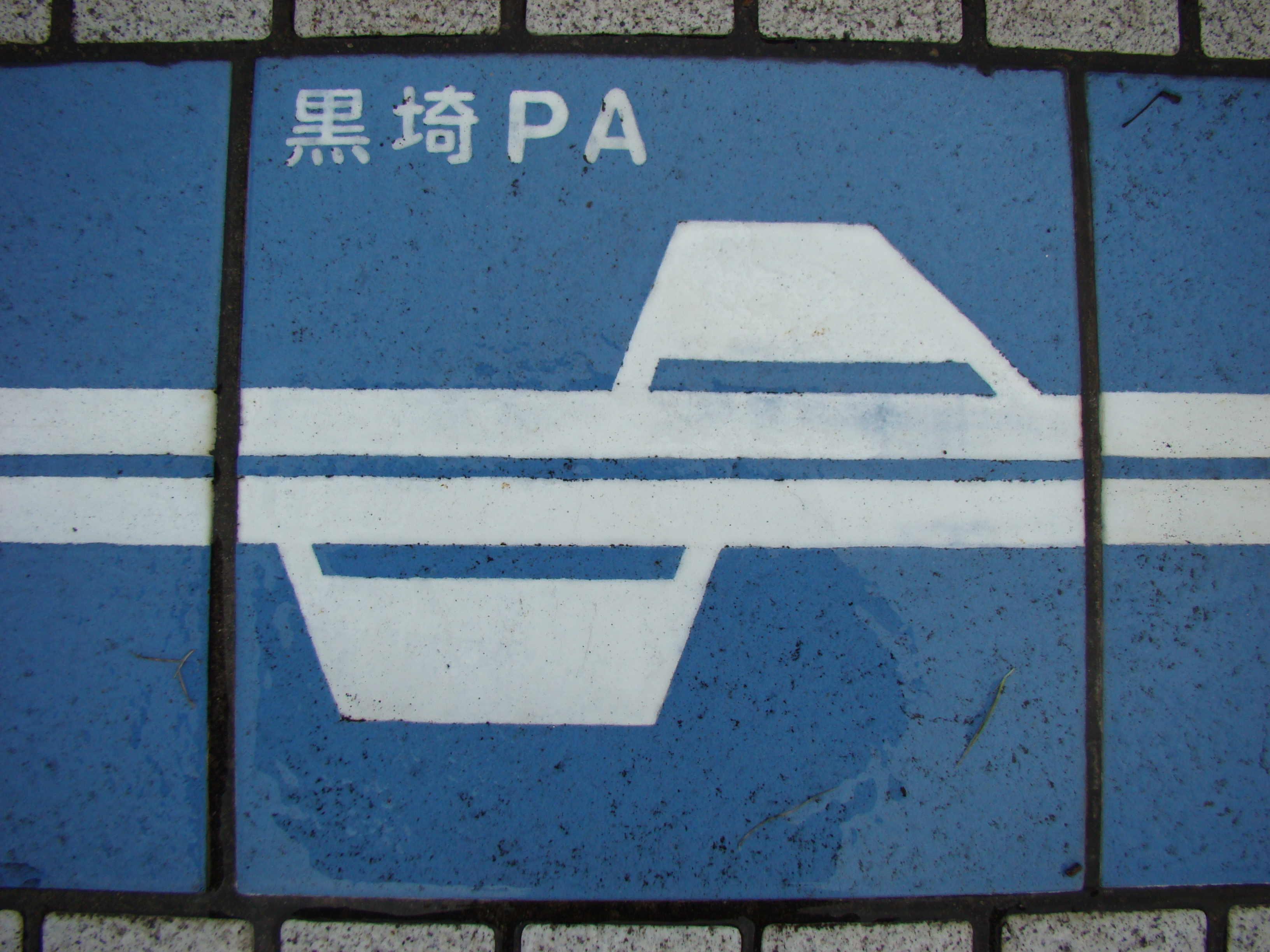 Tile which shows the shape of Kurosaki Parking Area on the Hokuriku Expressway, installed at Nadachi Tanihama Service Area in Chayagahara, Joetsu City, Niigata Prefecture, Japan